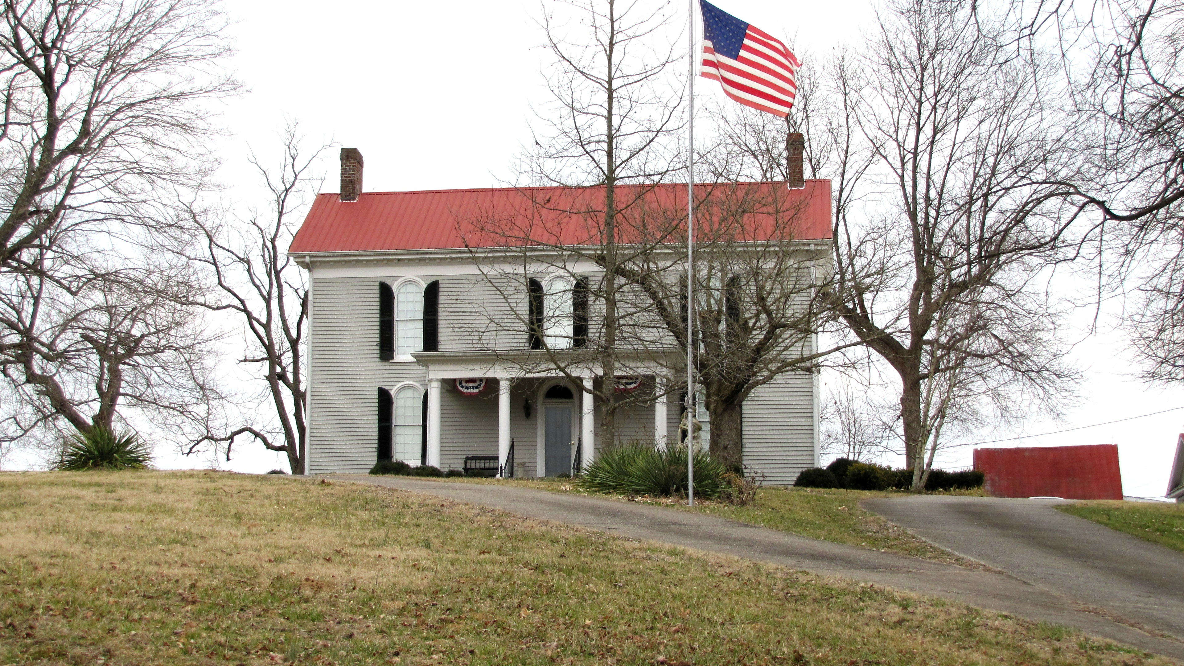 The Averitt-Herod House in Hartsville, Tennessee, USA. The house was built in the Federal style by Peter Averitt in 1832.